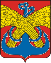 Kamen-na-Obi (Altai kray), coat of arms